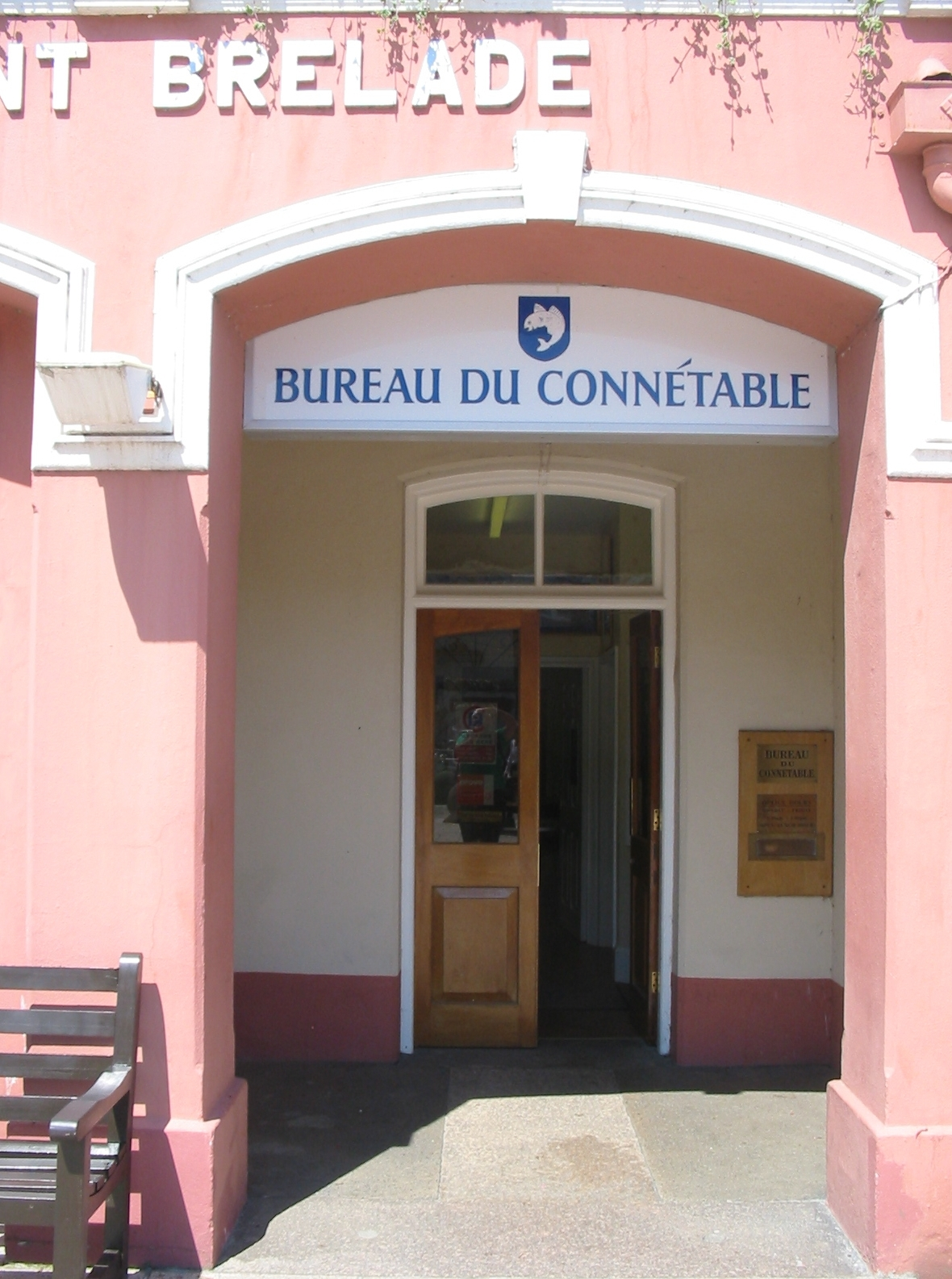 Constable's Office, St. Brelade Parish Hall, Jersey